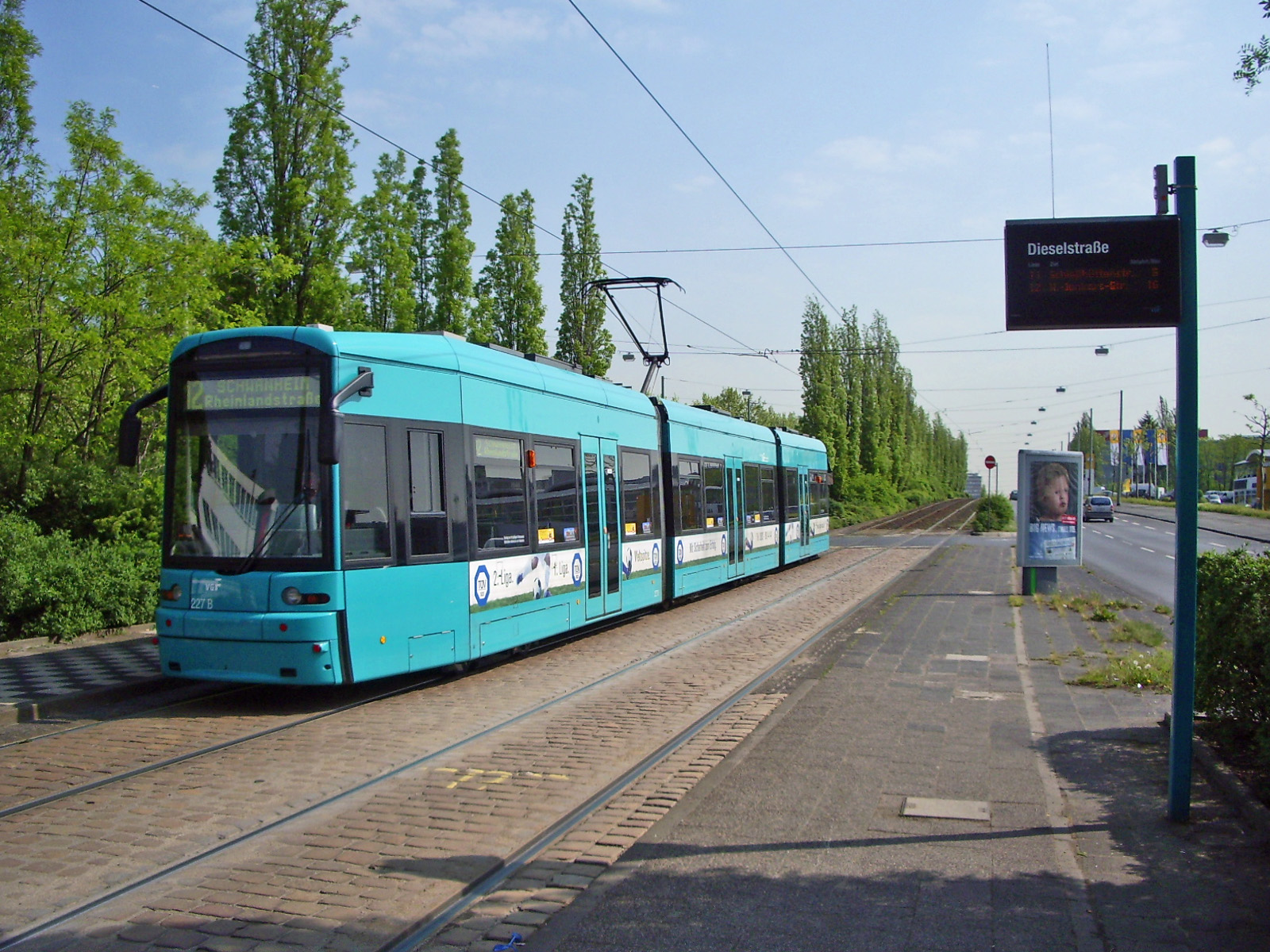 Low floor tram S 227 of Frankfurt am Main at Dieselstraße station, May 12, 2006. Created and uploaded by Philipp Gross